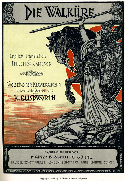 Art title page for Schott's vocal score of Wagner's opera Die Walküre, 1899